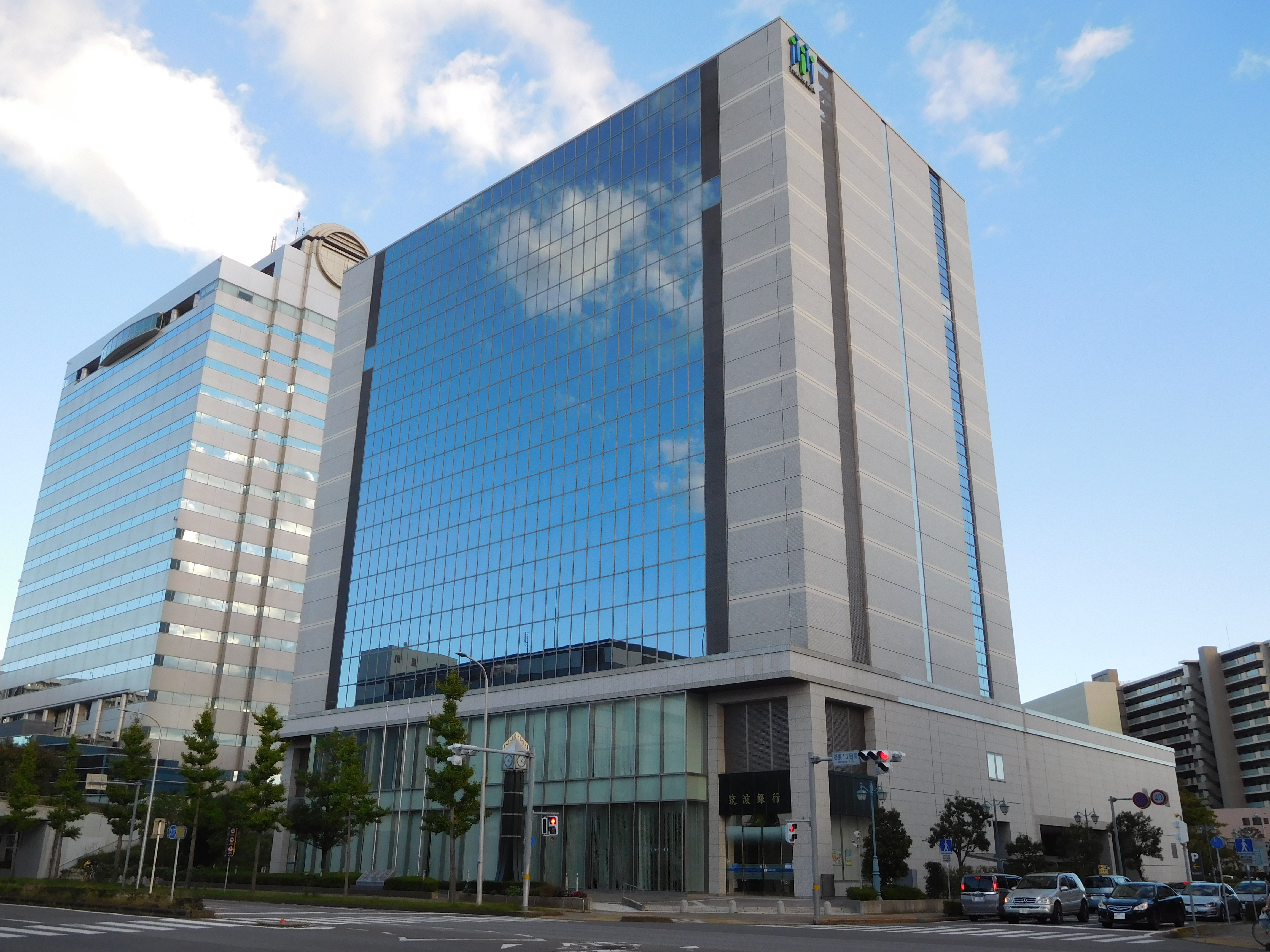 This is the Kanyu Tsukuba 1st Building which is located in Tsukuba, Ibaraki, Japan. This building has Tsukuba Bank Tsukuba Department.